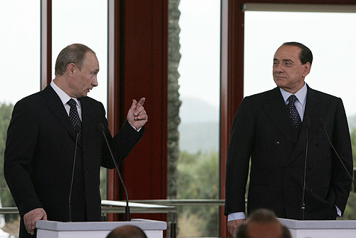 SARDINIA. Vladimir Putin and Silvio Berlusconi at their joint press-conference.